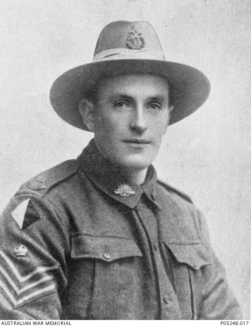 Studio portrait of 36 Staff Sergeant (later Lieutenant) Clifford Charles Burge, Army Pay Corps (later 24th Battalion), of Elsternwick, Victoria. A public servant prior to enlisting, he embarked from Melbourne aboard HMAT Runic (A54) on 25 February 1915. On 14 August 1918, he was killed in action, by a shell in The Quarry, France, aged 26, while moving forward to the new front line with C Company. The Unit Diary records that Lieut Burge "was one of the most promising and popular officers with the Battalion & a fine sportsman, a good soldier and comrade". He is buried in the Villers-Bretonneux Military Cemetery, France.